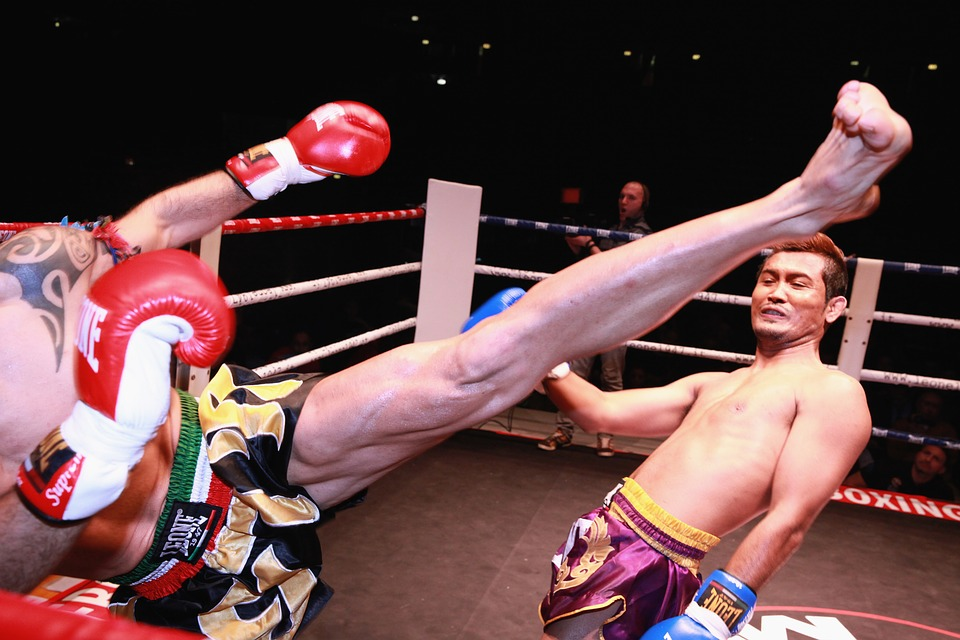 A fighter leans back to evade a round kick